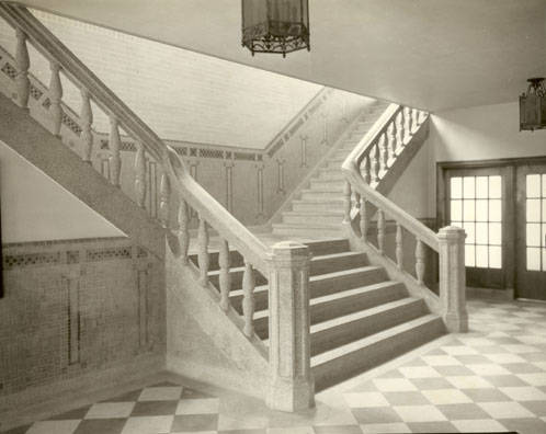 Early photo the Old Gym (Washington & Jefferson College) at Washington & Jefferson College.